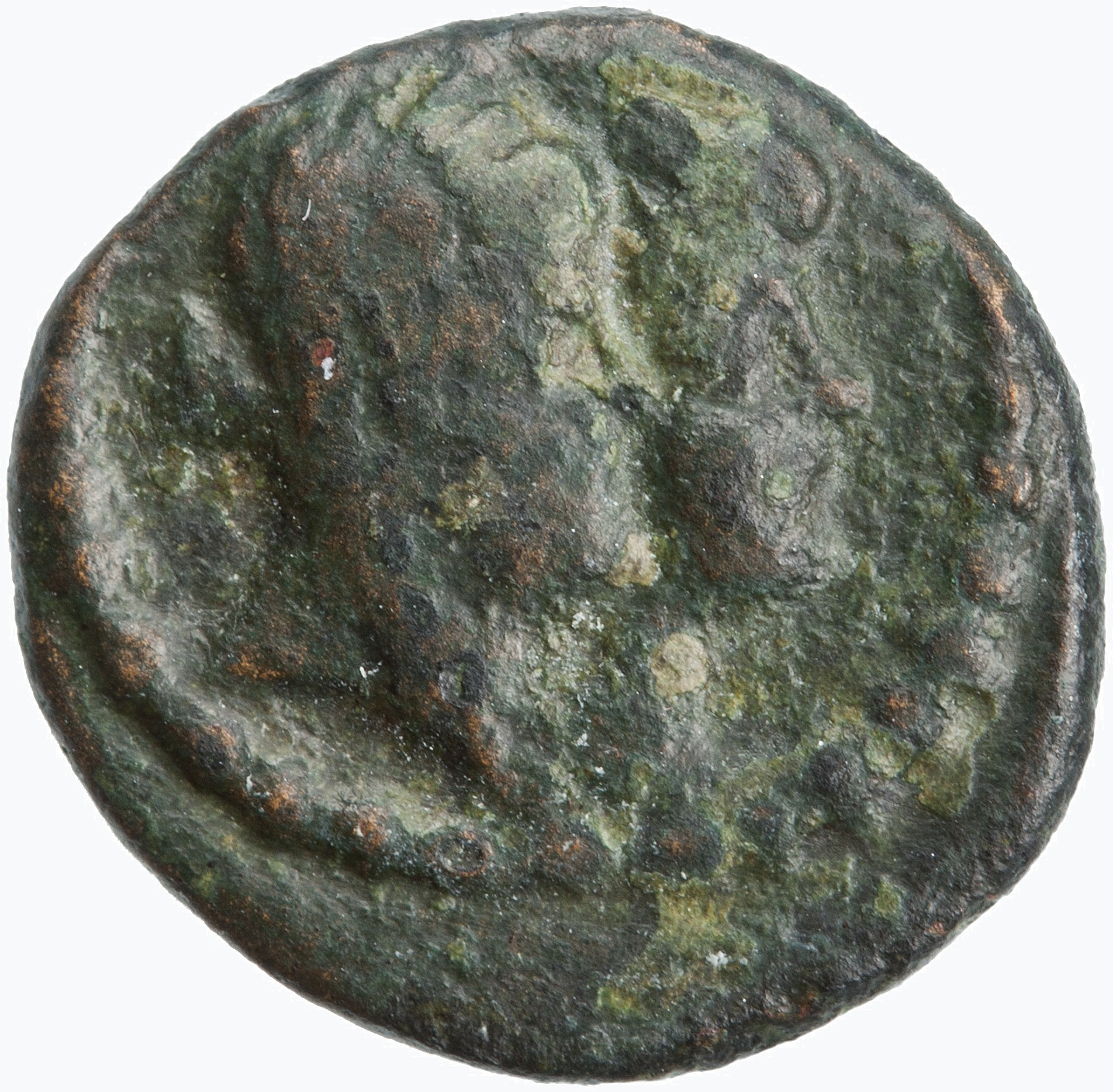 Obverse of a bronze coin of Cleopatra Selene of Syria and Antiochus XIII